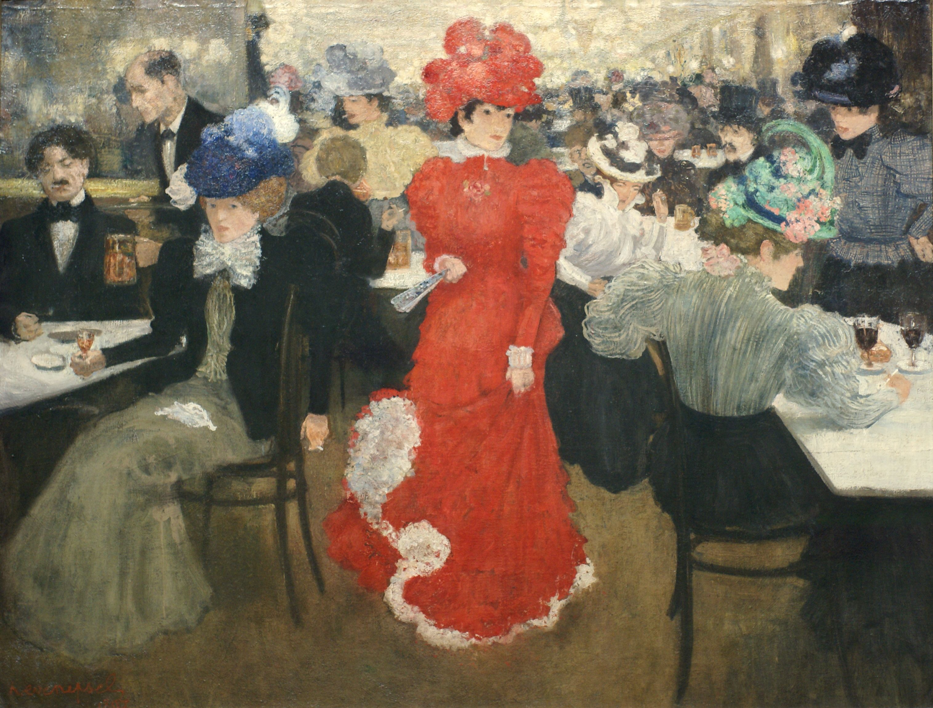 In the Café d´Harcourt in Paris, oil on canvas, 114 x 148 cm.